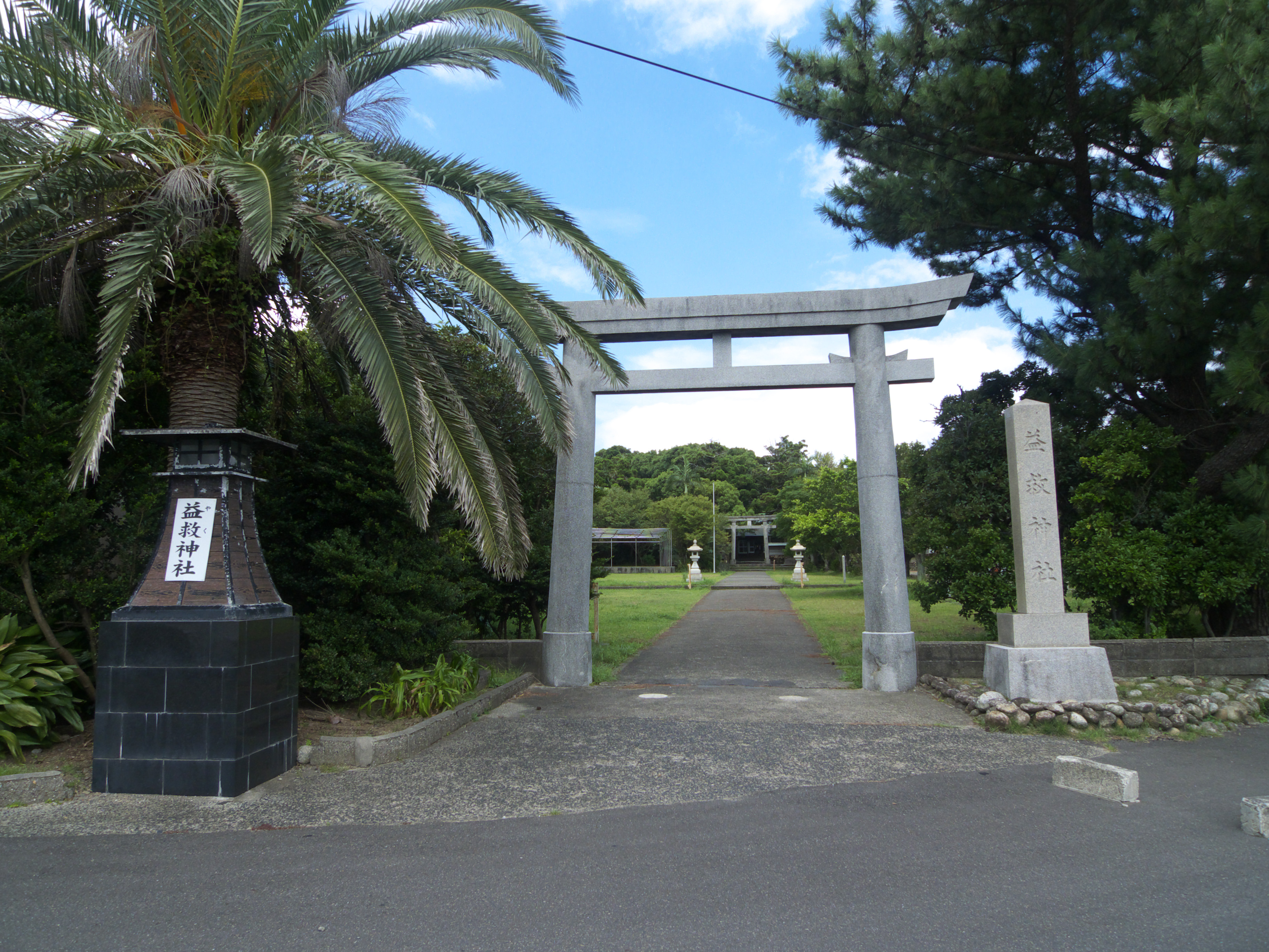 Torii (gate) of the Yaku Shrine (Yaku-jinja) in Miyanoura, Yakushima, Japan